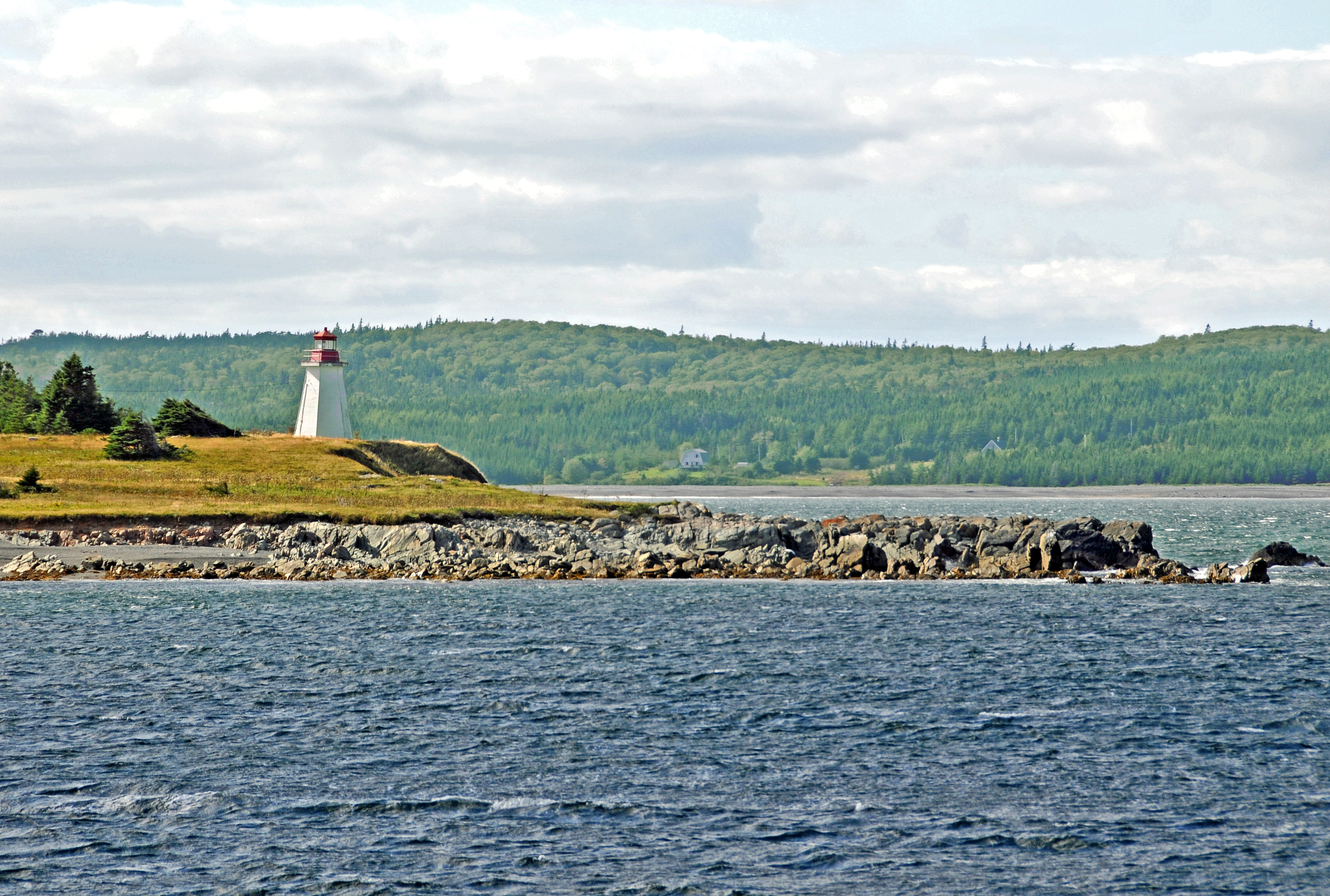 Gabarus Lighthouse Location: On Harbour Point on the south shore of Gabarus Bay Standing: This light is still standing Operating: This light is operational Began and Lit: 1890 Structure Type: Six-sided white wooden tower, has a red iron lantern Light Characteristic: Fixed Red (1941) Tower Height: 9.75 meters (32ft) Light Height: 4.33 meters (47ft) above water level Scenic Drive: Fleur-de-lis Trail